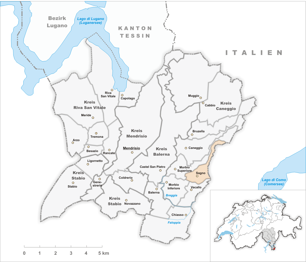 Municipality Sagno